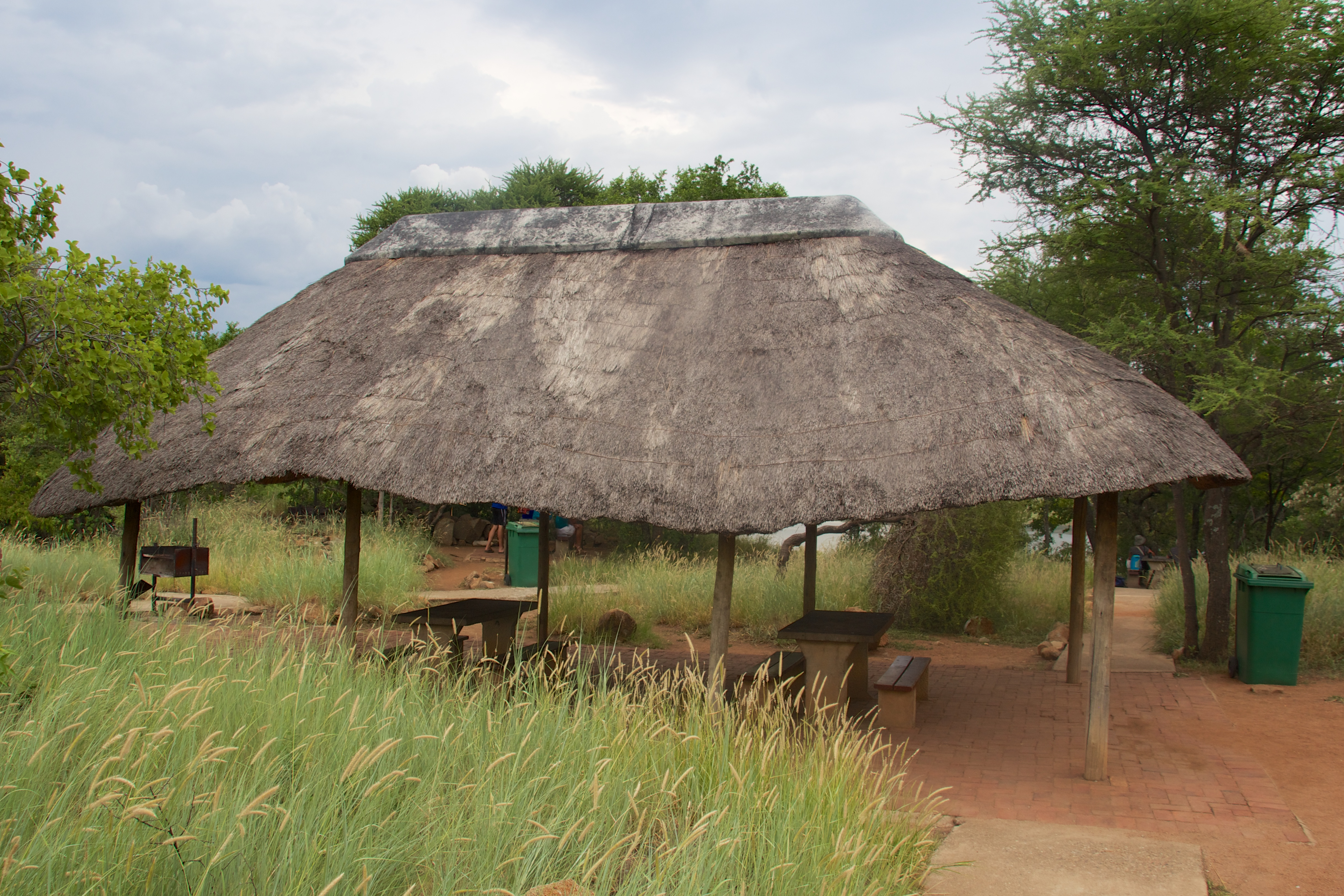 Thatched shelter at Pilanesberg National Park.